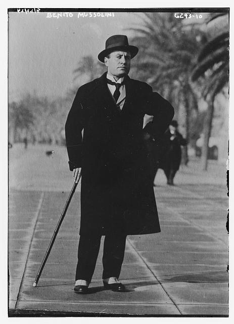 Mussolini on a street early in his political career